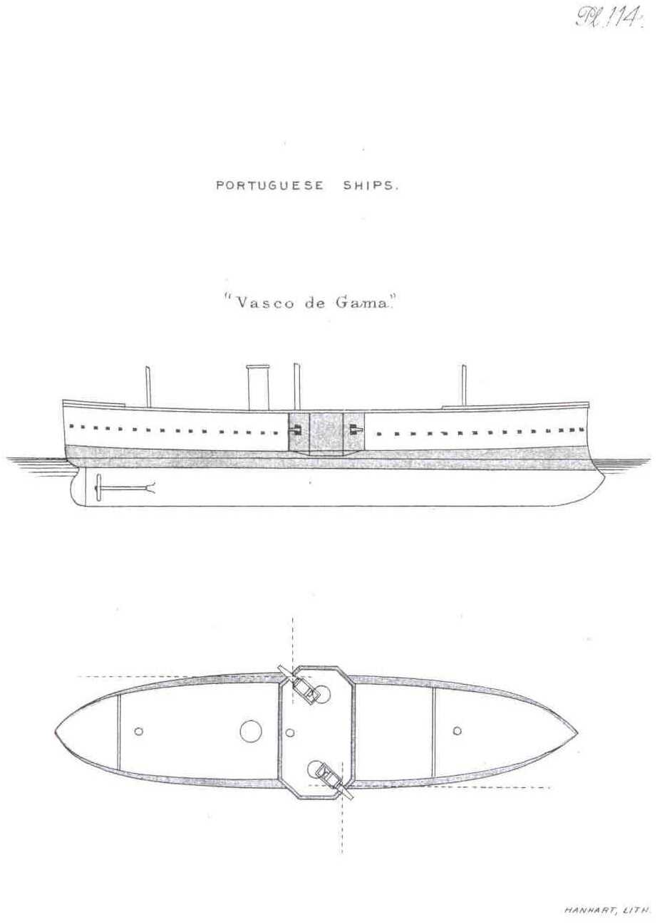 The Portuguese armoured corvette Vasco da Gama